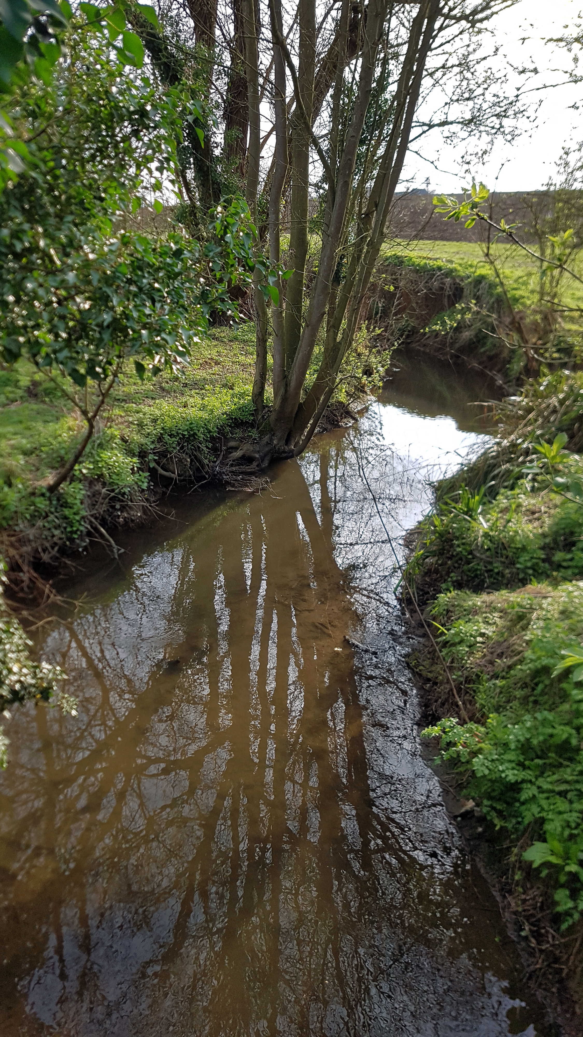 Pincey Brook looking south from Greenhill road bridge, 1.5 miles (2.4 km) north from Hatfield Broad Oak village, in the civil parish of Hatfield Broad Oak, in Essex, England. Pincey Brook rises at Stansted Airport, runs south between the villages of Hatfield Broad Oak and Hatfield Heath, turns west and under the M11 motorway, passes the Gibberd Garden at its north, and then enters the River Stort at the north of Harlow. The Brook passes through the parishes of Takeley, Hatfield Broad Oak, Hatfield Heath, Matching, and Sheering.Camera: Samsung Galaxy S7 Edge.Software: JPEG file lens-corrected, optimized and converted with DxO OpticsPro 11 Elite, and further optimized with Adobe Photoshop CS2.